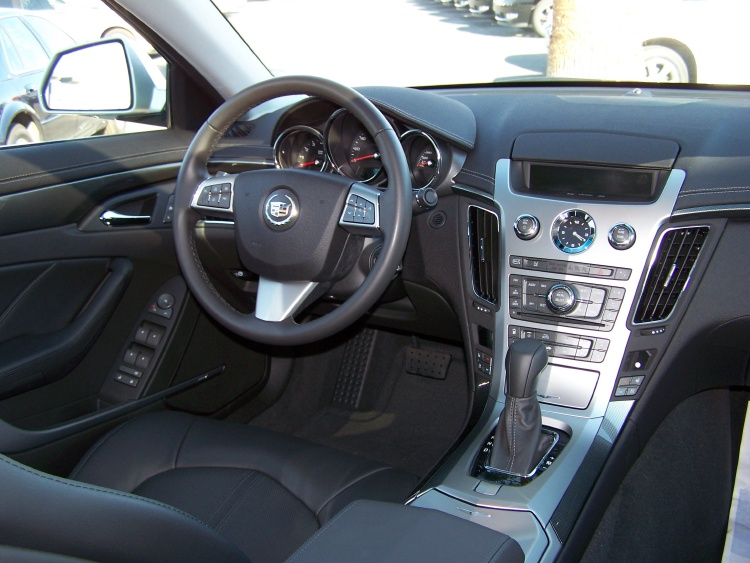 Interior of the 2008 Cadillac CTS (US model shown) This picture shows the CTS featuring the Navigation system, and the Heated & Cooled seats. A fully loaded model. The only thing missing is the Sappele wood trim.